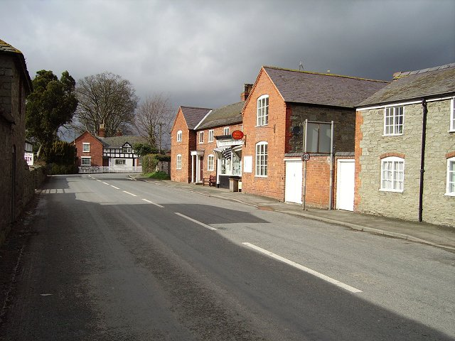 Chirbury. Village in the far west of Shropshire. I used to be on the dustbin round here. Its in South Shropshire District, the next day I could have been working in Cleobury. Shame Geograph was not around then.